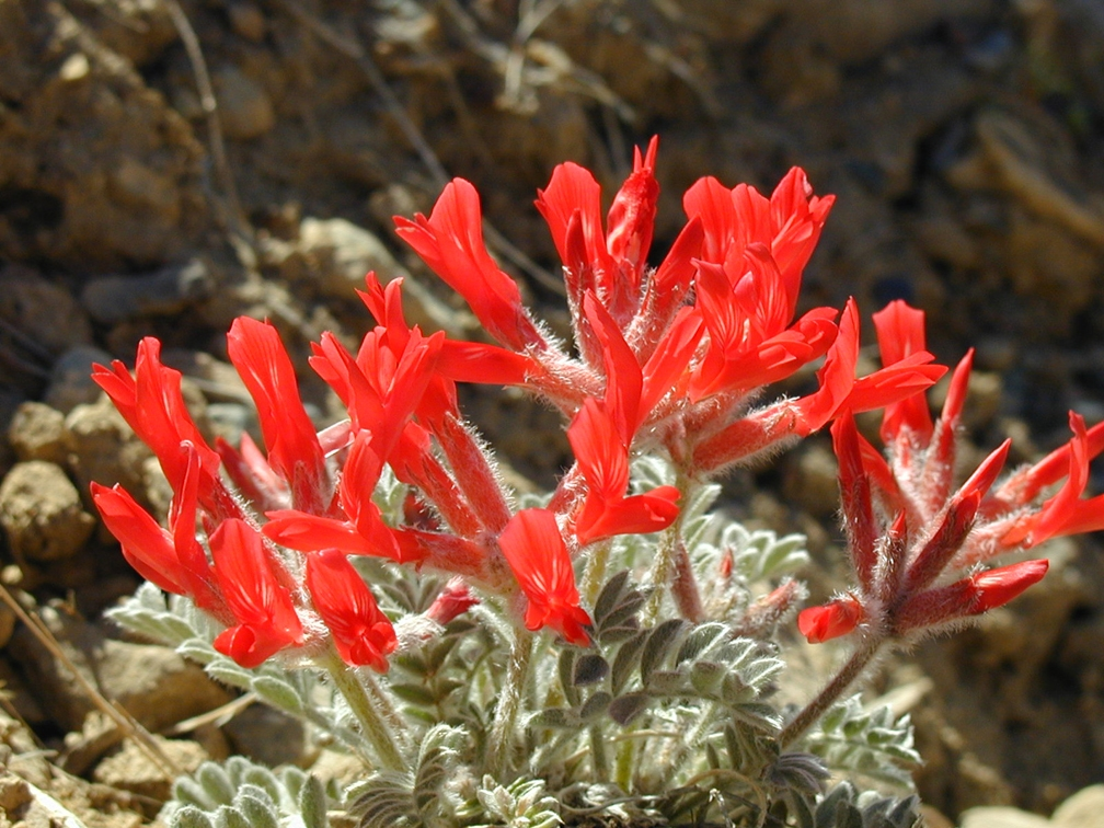 Scarlet Locoweed (Astragalus coccineus) is one of the most beautiful flowers of the Mojave Desert.